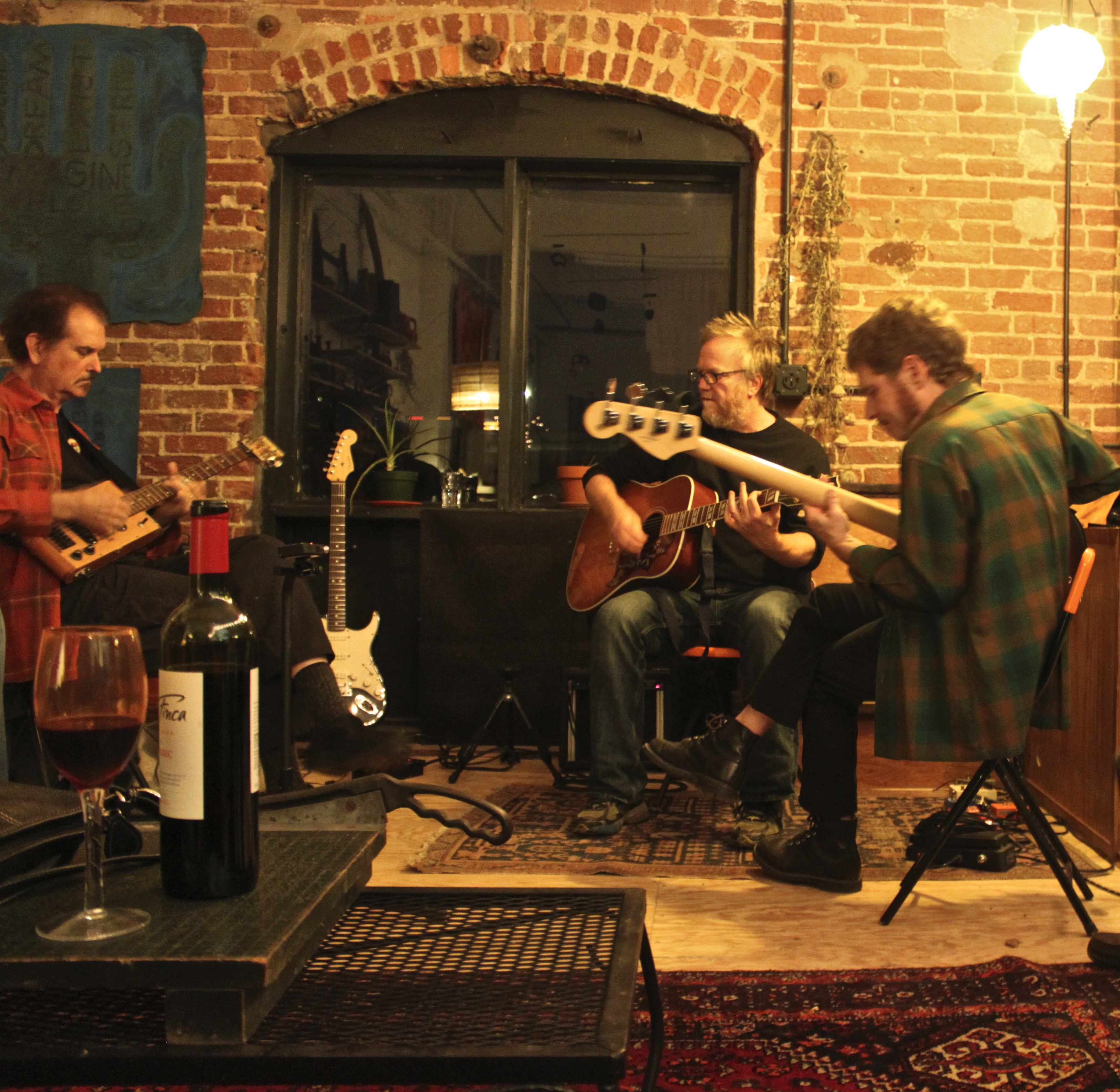 one or two,or so... of those nights from Flickr album "cotton mill jam-time at metal and thread" by denise carbonell from asheville "we like to jam.heres where it happens."